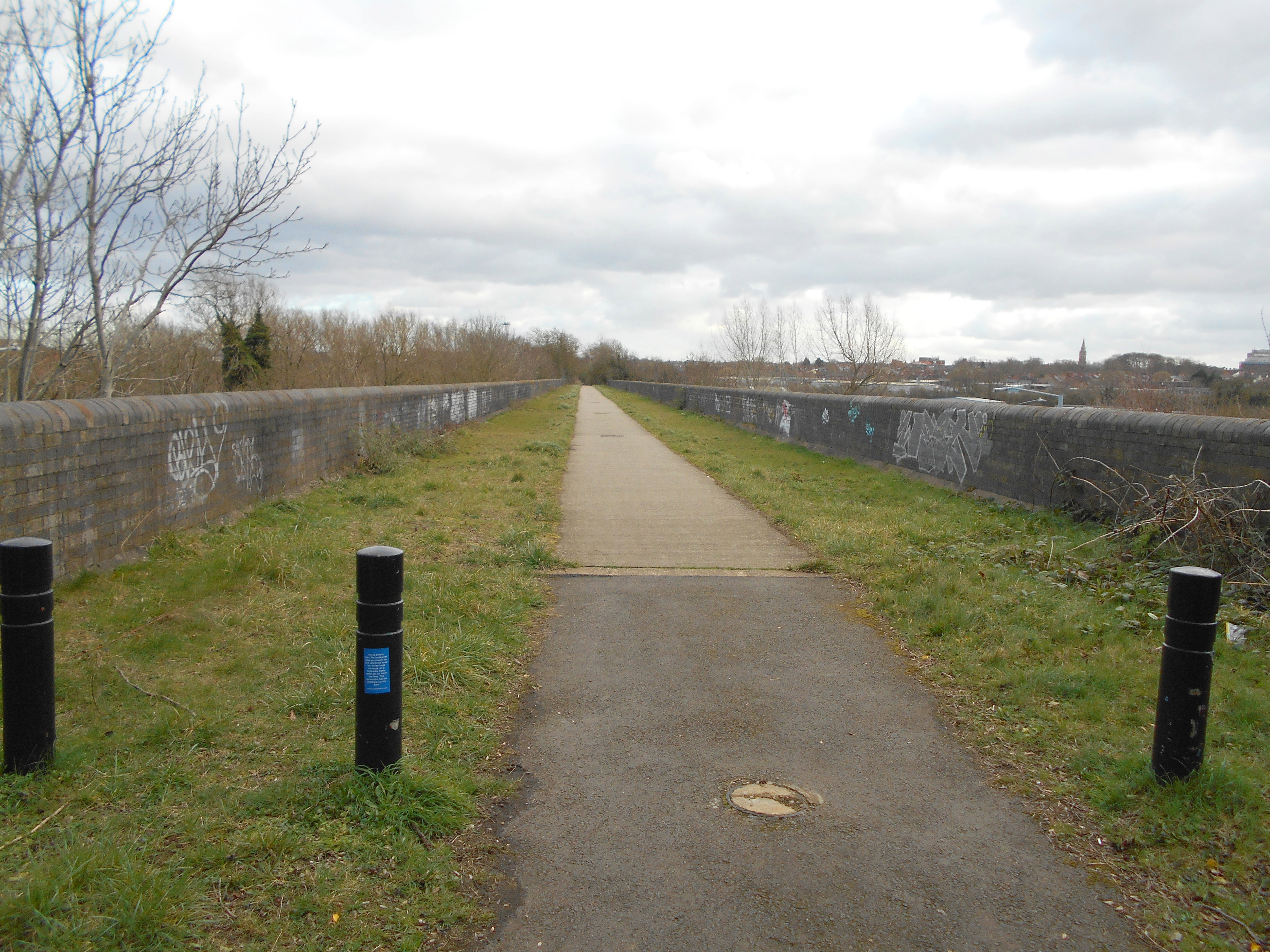 Cycle path and walkway on the former Midland Counties railway viaduct at Rugby